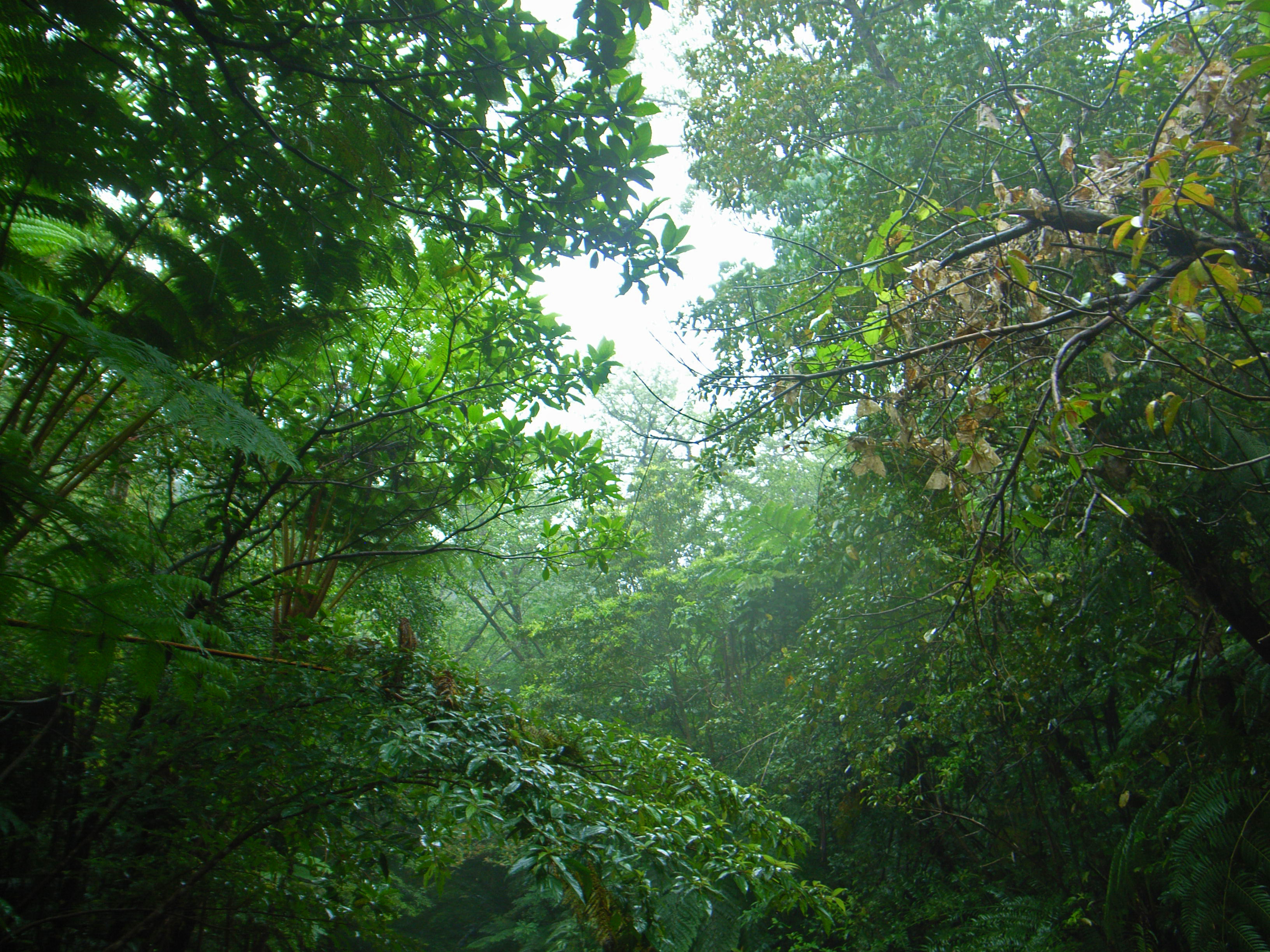 The old Yambaru Forest, Okinawa